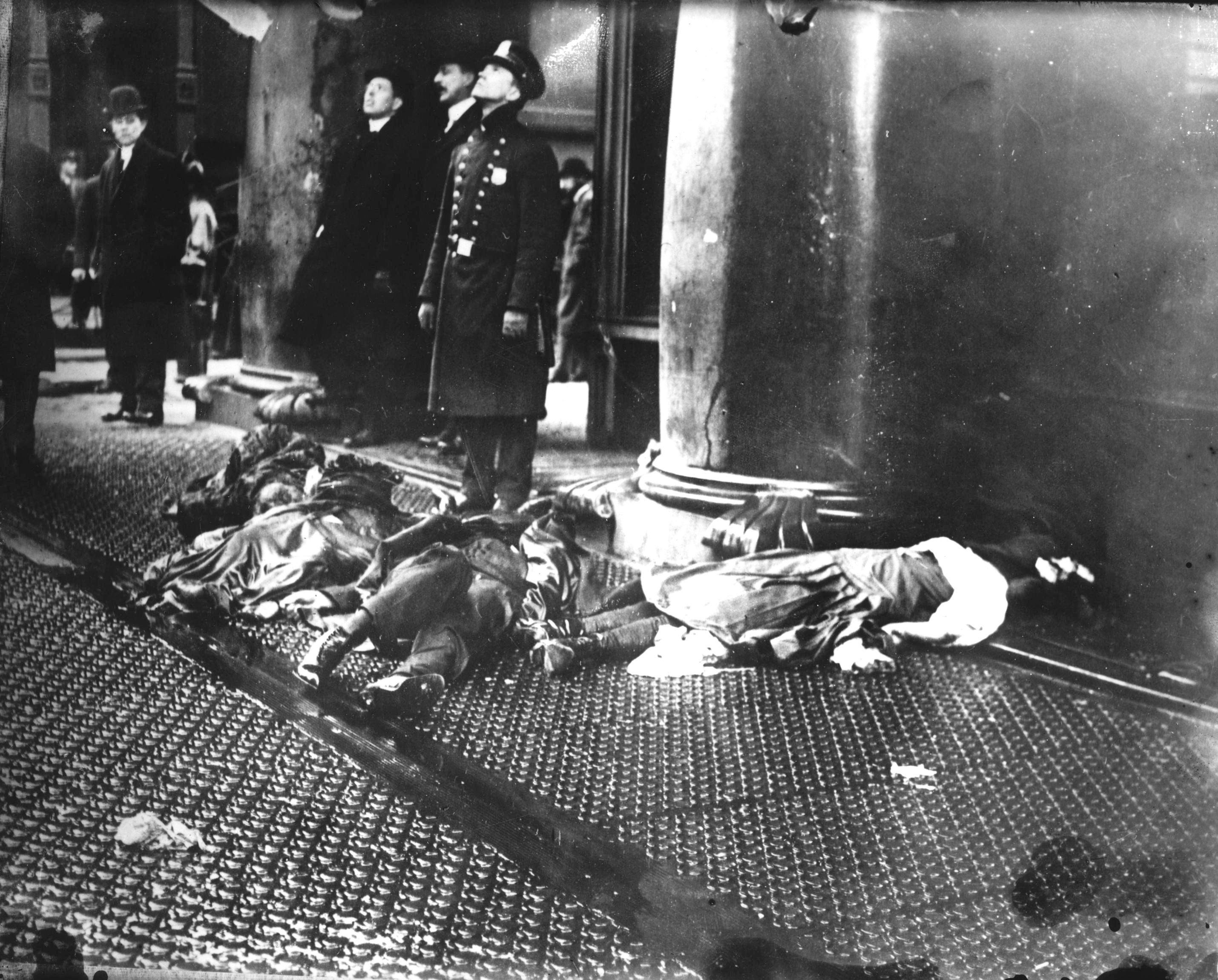 Bodies of workers who jumped from windows to escape the Triangle Shirtwaist Factory fire